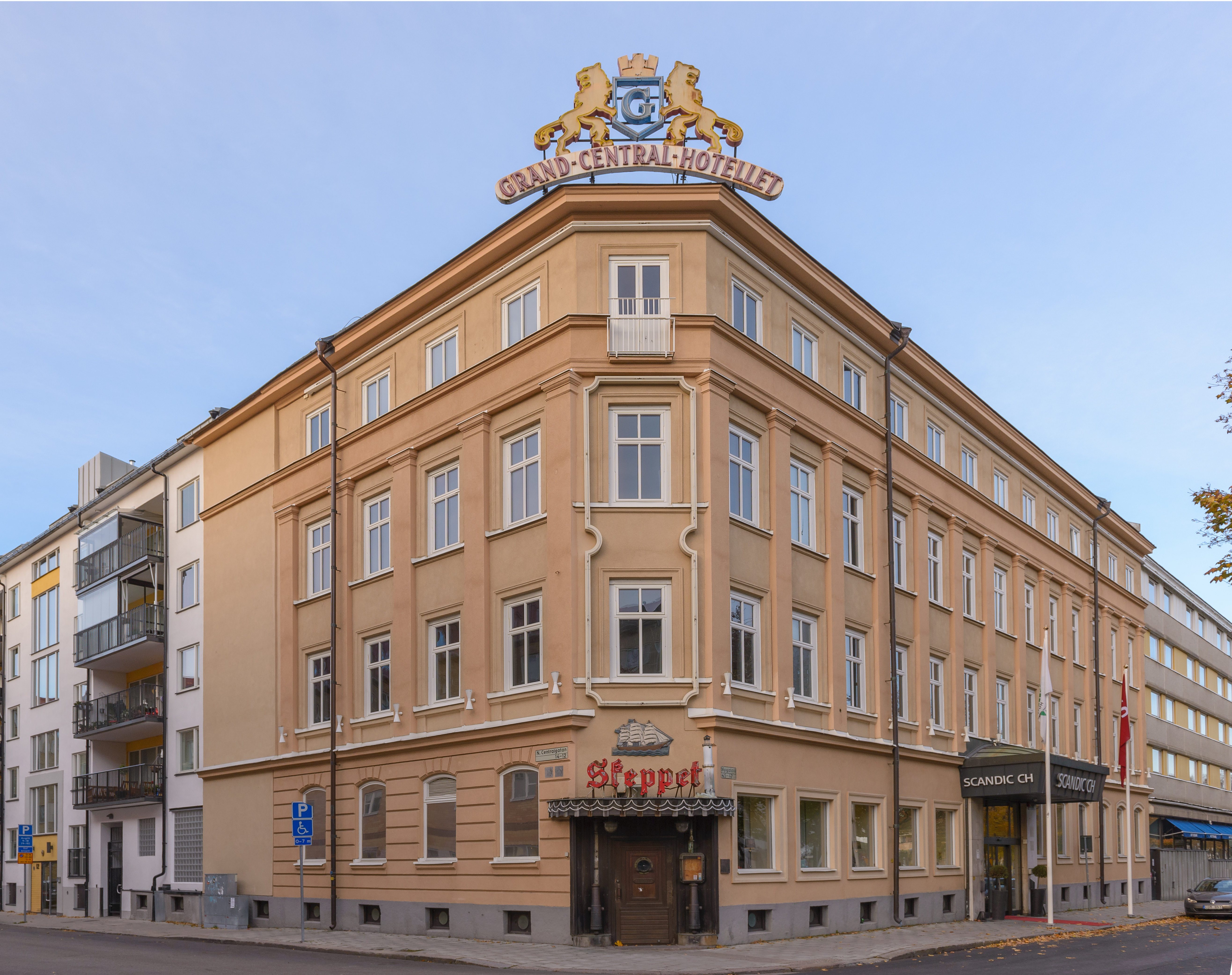 Centralhotellet (Central hotel), Gävle.